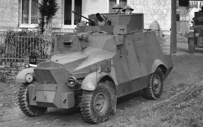 Morris CS9 armoured cars of 'C' Squadron, 12th Royal Lancers (Prince of Wales' Own) at Villiers St Simon.